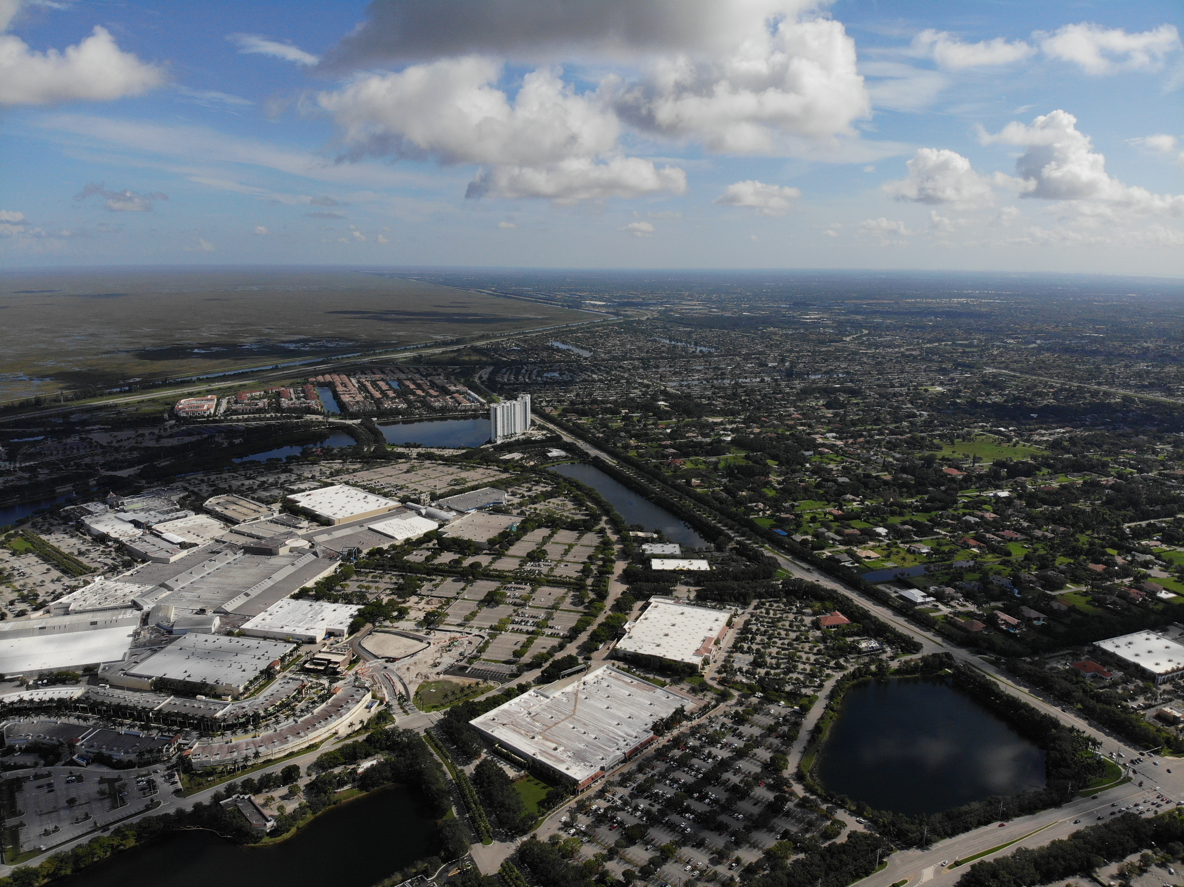 An aerial shot of the Sawgrass Mills mall (left) and subdivisions in Sunrise, Florida (top), and Plantation, Florida (right).